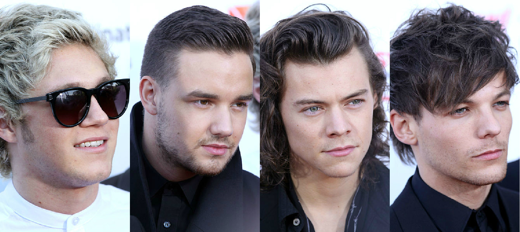 Montage of One Direction at ARIA Awards 2014